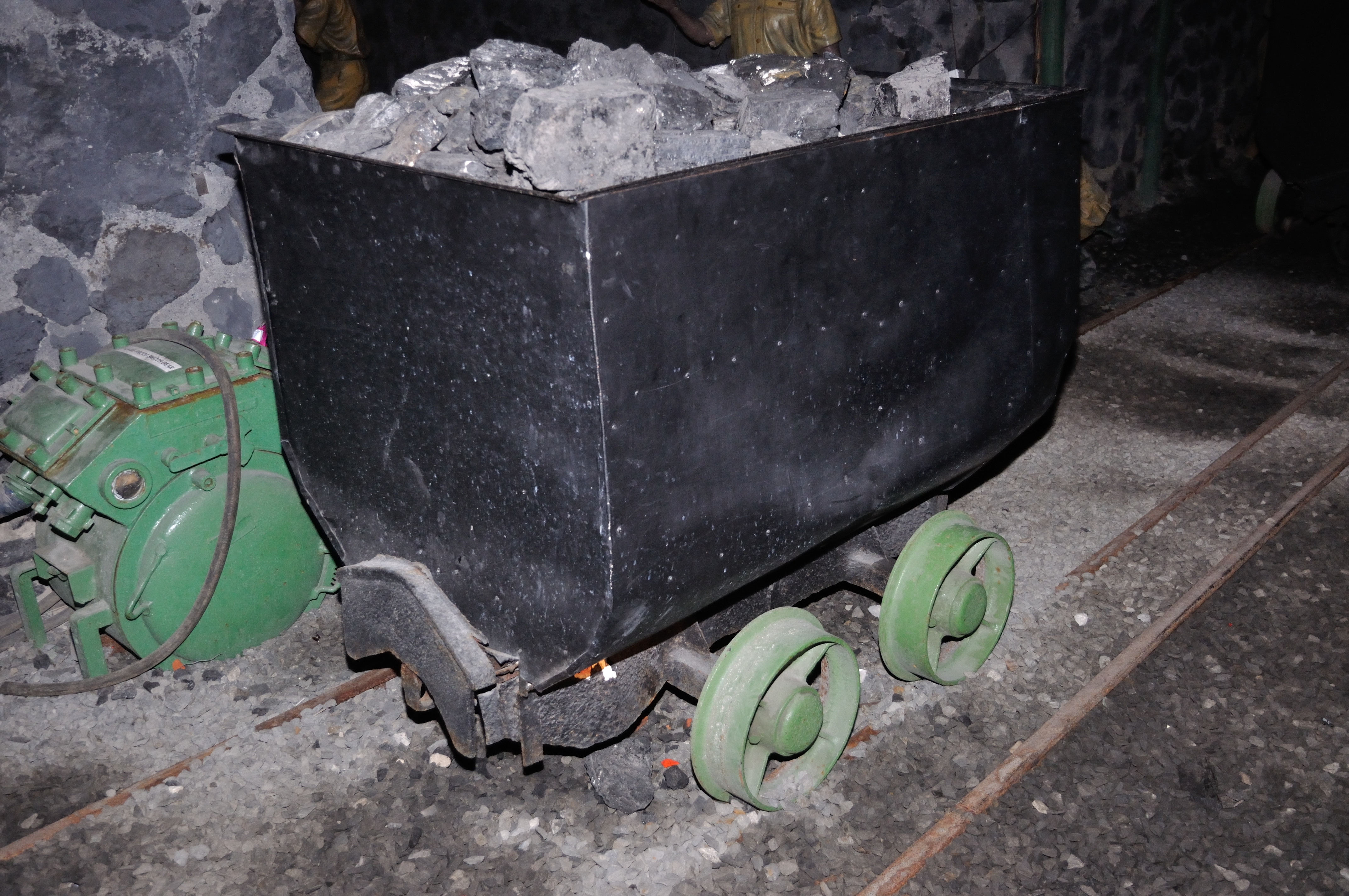 Photographed at the Birla Industrial & Technological Museum or BITM, Kolkata.